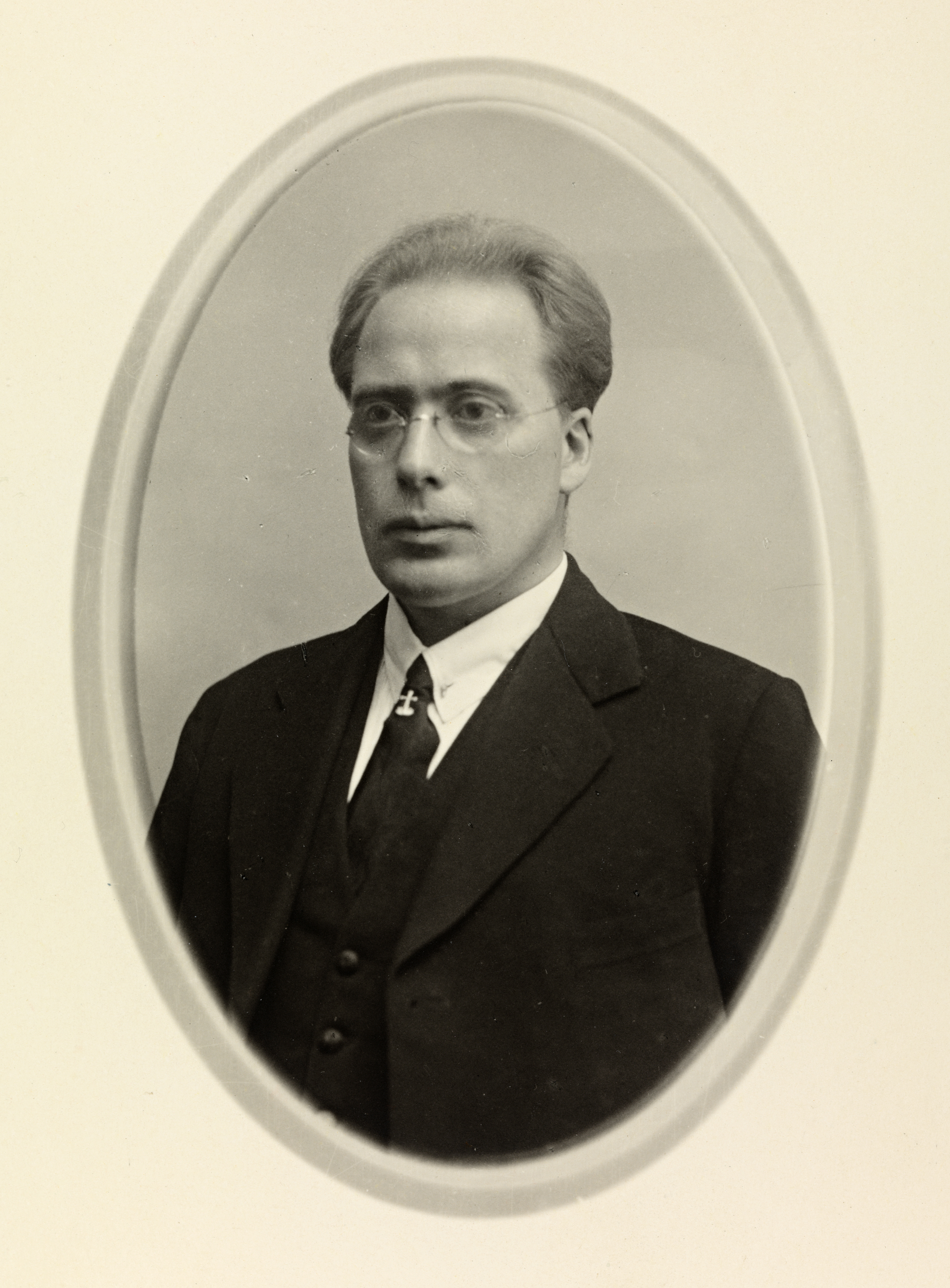 Tittel / Title: Portrett av Inge Krokann (1893-1962) Dato / Date: høsten 1929 Fotograf / Photographer: Alvilde Torp (Lillehammer) Sted / Place: Oppland, Lillehammer Eier / Owner Institution: Nasjonalbiblioteket / National Library of Norway Lenke / Link: Bildesignatur / Image Number: blds_05686